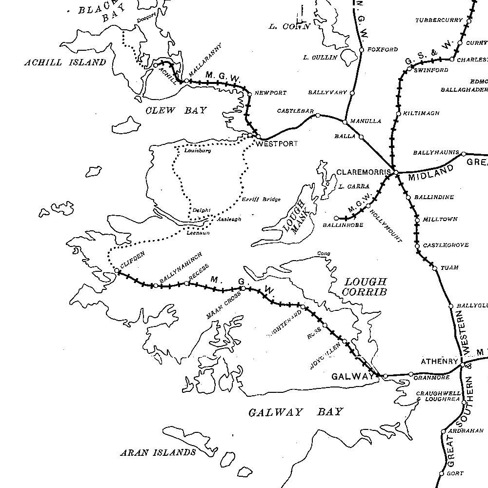 Branchlines in Connemara and Mayo